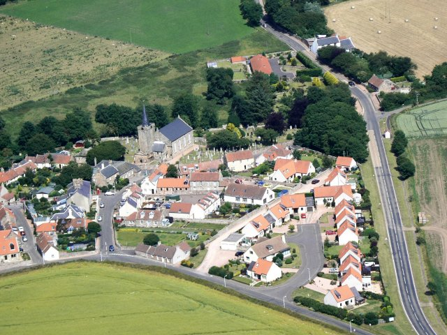 Kilrenny village Houses, ancient and modern, nestling around the village church.